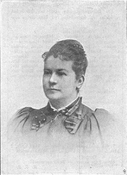 Swedish composer Ika Peyron, image from Idun Magazine, 9 April 1897.